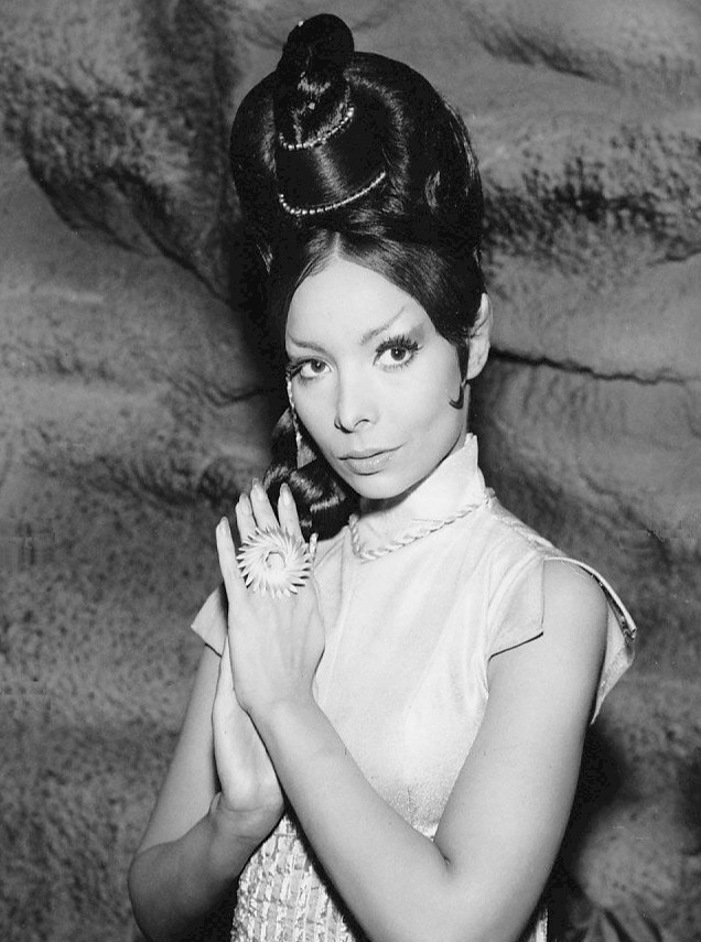 Photo of Arlene Martel as T'Pring from the Star Trek episode "Amok Time". There are no copyright marks on the photo as seen at the links above.